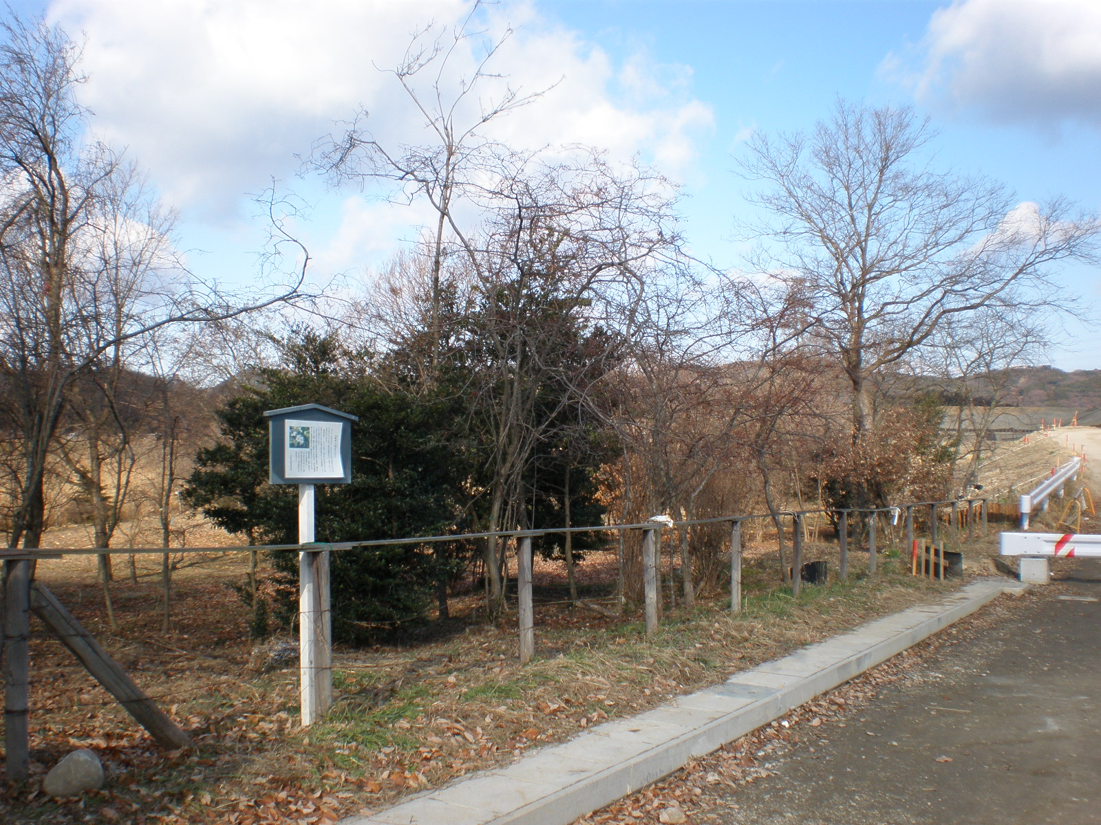 This place is the self-seeded place of Pyrus calleryansa Decne.(Komaki, Aichi Pref)